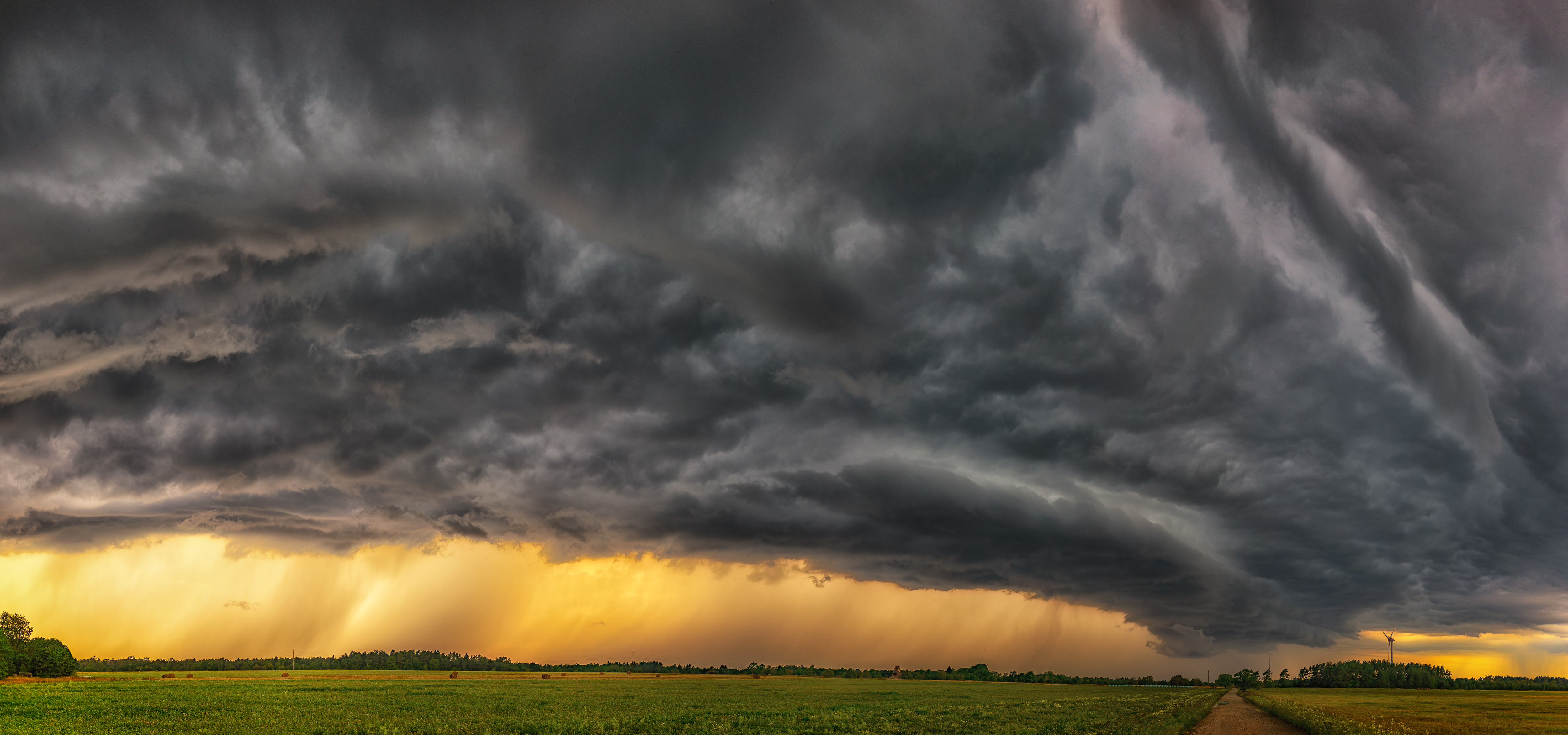 Shelf cloud. Varbla, Estonia.